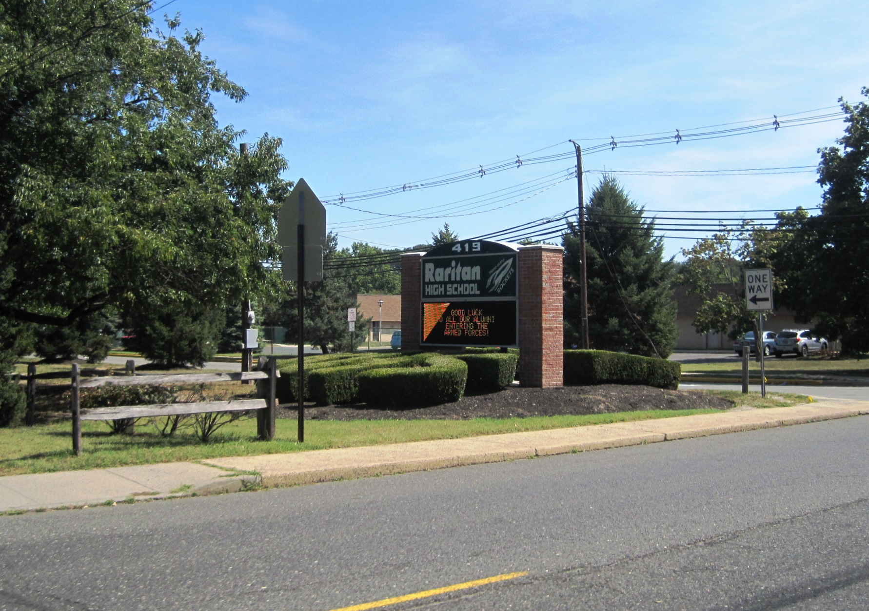 Photo showing the front sign of Raritan High School in Hazlet, New Jersey. Photo taken along eastbound Middle Road (County Route 516).